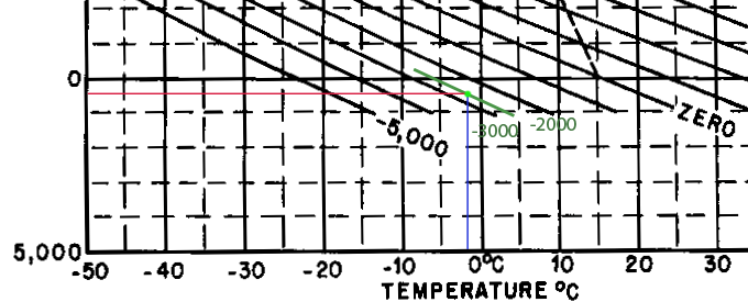 Density altitude calculation using the graphic. PA= -500 ft OAT= -2°C DA= -2700 ft